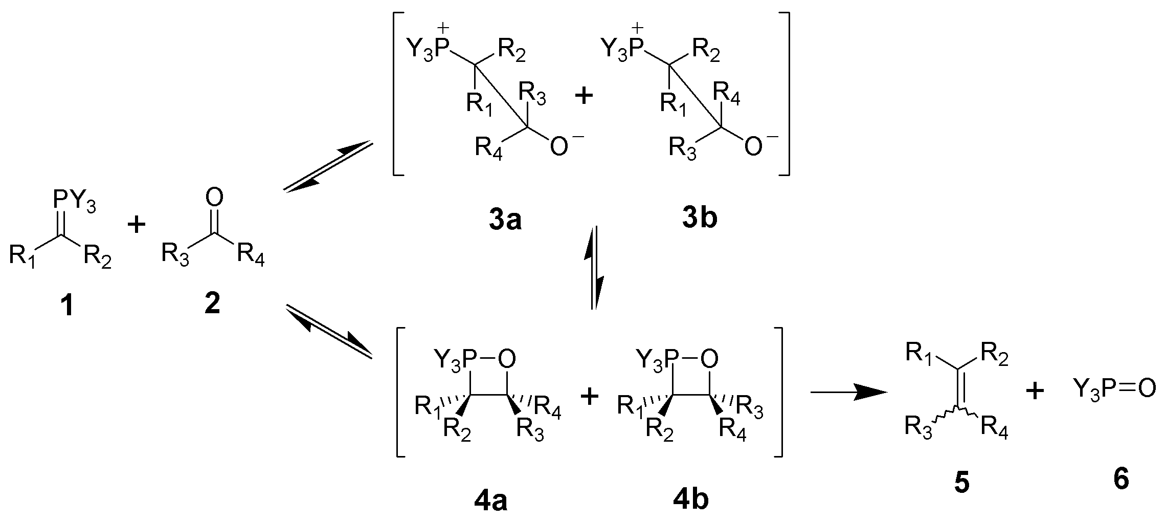 Description: Recent reaction mechanism of the Wittig reaction. Author, date of creation: selfmade by ~K, 18 December 2005. Source: - Copyright: Public domain. (PD) Comments: high-resolution b/w PNG; ChemDraw / The GIMP.